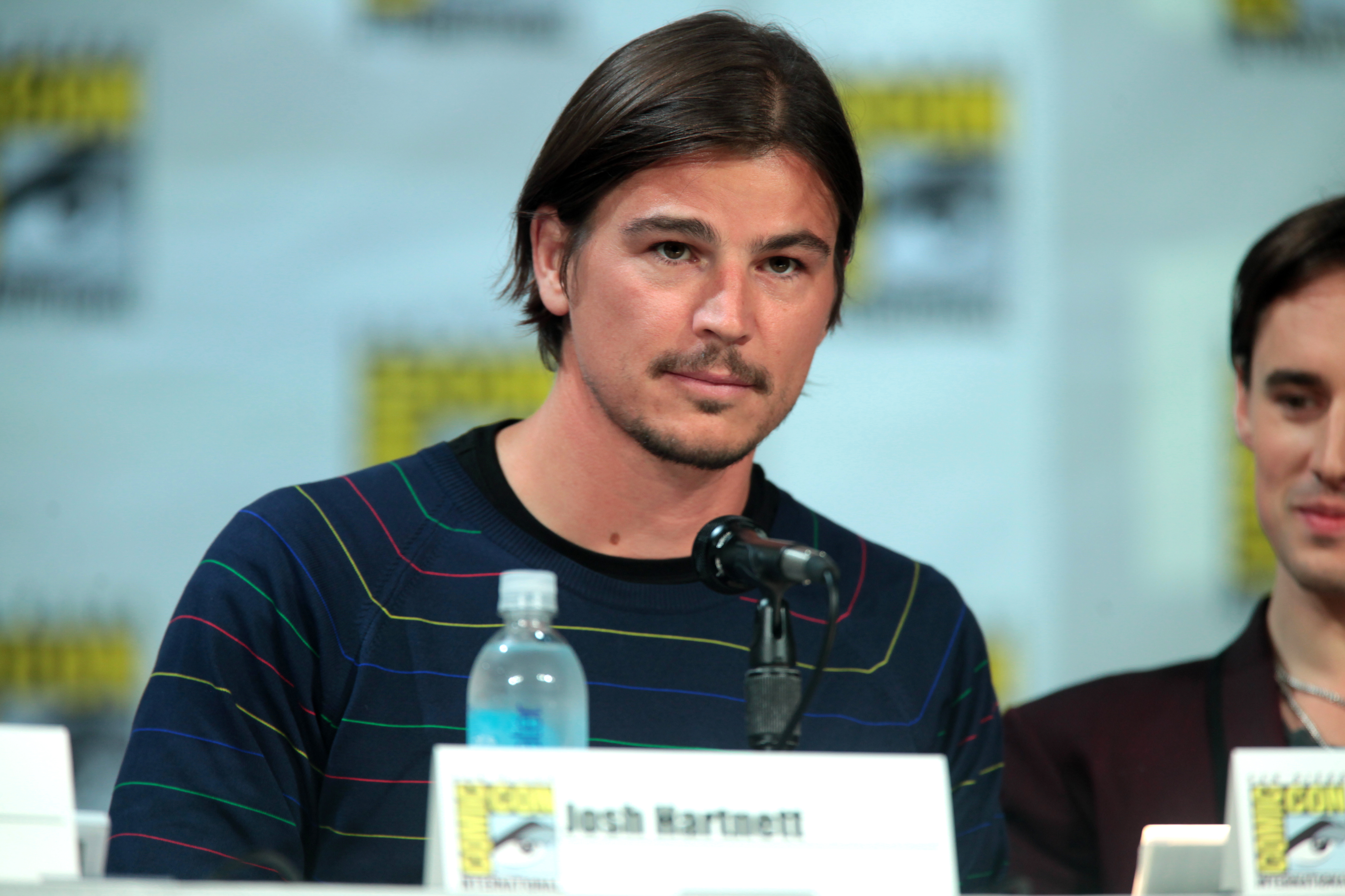 Josh Hartnett speaking at the 2014 San Diego Comic Con International, for "Penny Dreadful", at the San Diego Convention Center in San Diego, California.